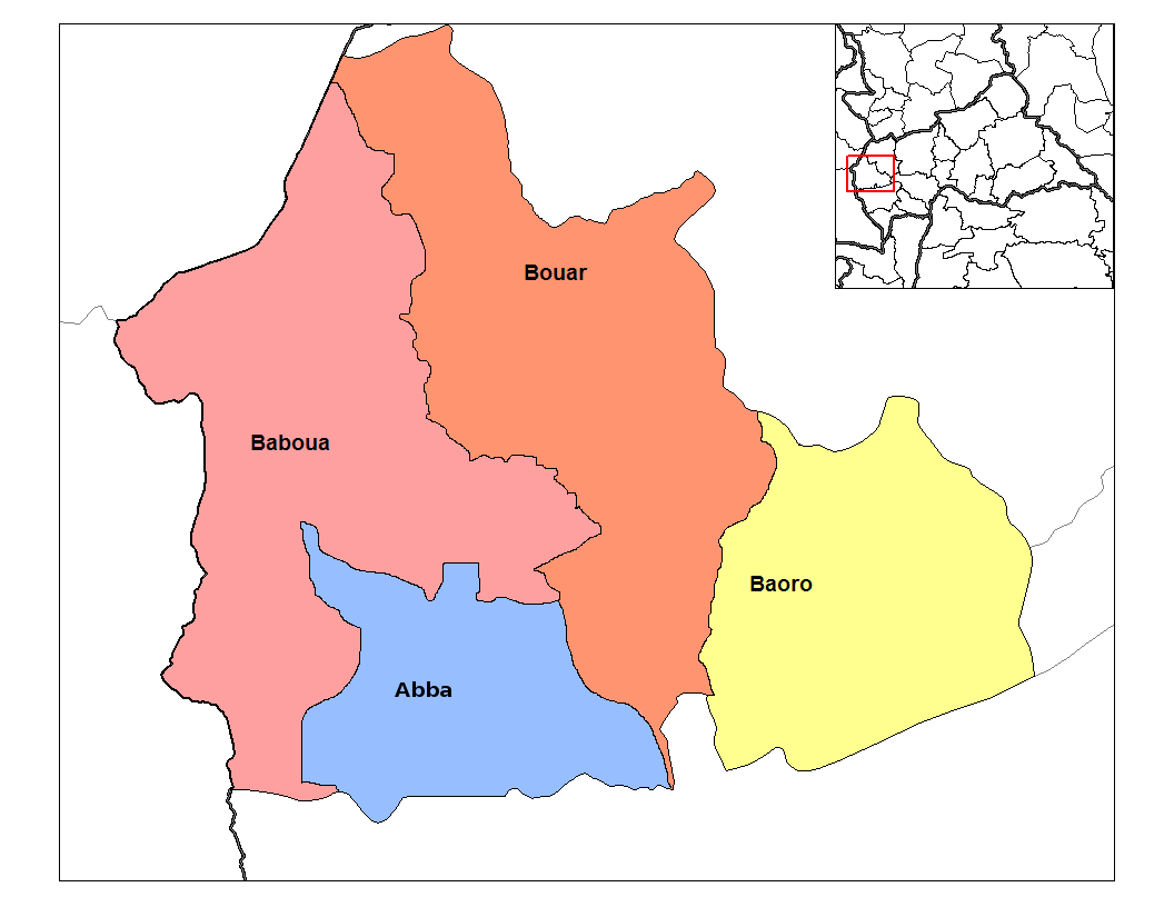 Map of the sub-prefectures of Nana-Mambere prefecture in the Central African Republic. Created by Rarelibra 20:31, 31 August 2006 (UTC) for public domain use, using MapInfo Professional v8.5 and various mapping resources.